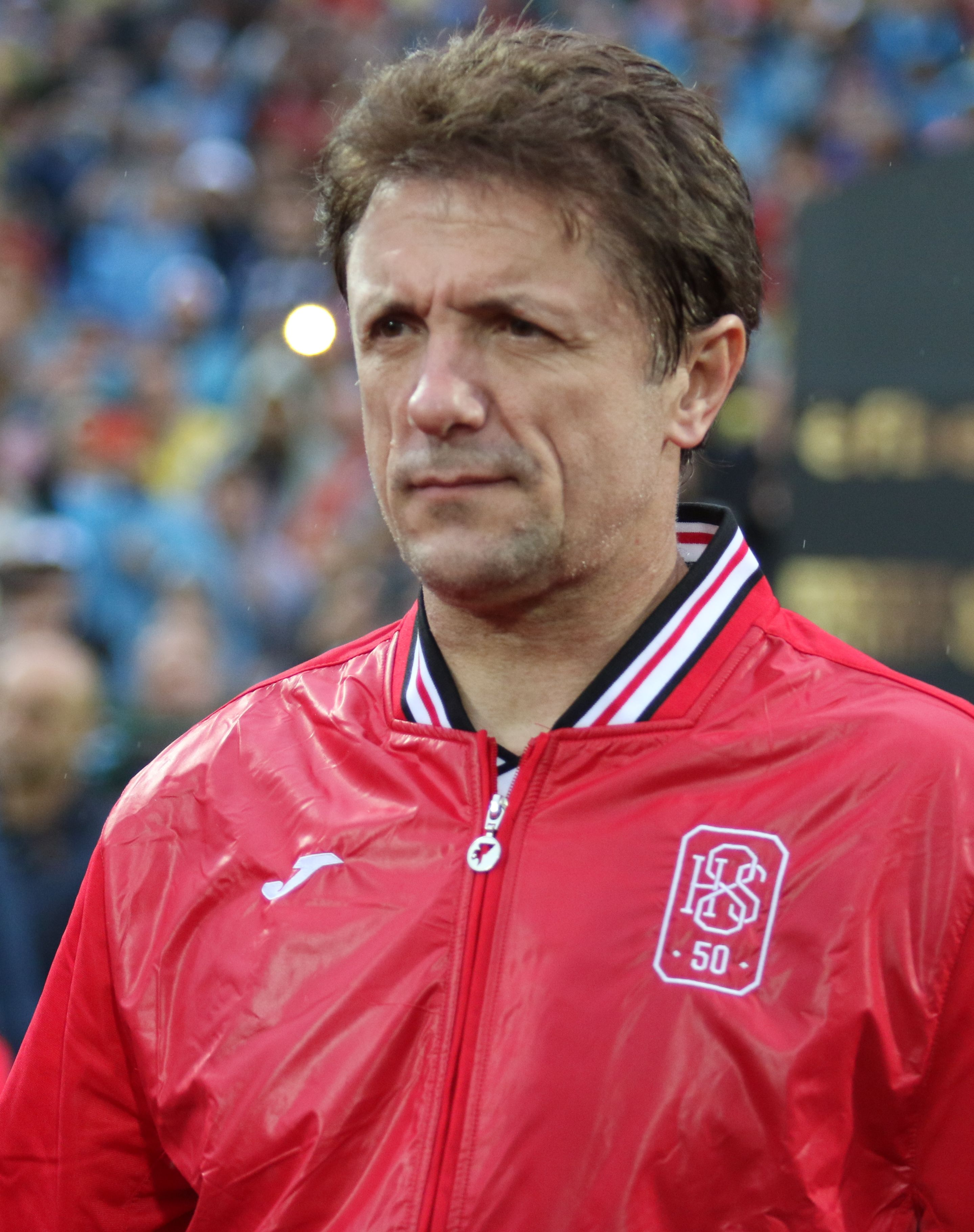 Gheorghe "Gică" Popescu- ( born 9 October 1967) is a retired Romanian football defender, former captain of FC Barcelona and key part of the Romania national team in the 1990s.